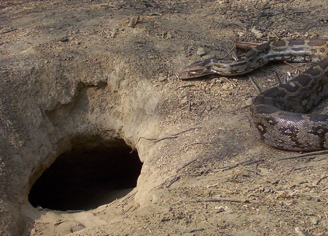 This picture was taken at Bharatpur Bird Sanctuary (Keoladeo Ghana National Park), India. This Light Phase Asian Rock Python (Python molurus molurus) was basking in the sun during the afternoon. It sensed the approaching human beings and slithered into its hole.